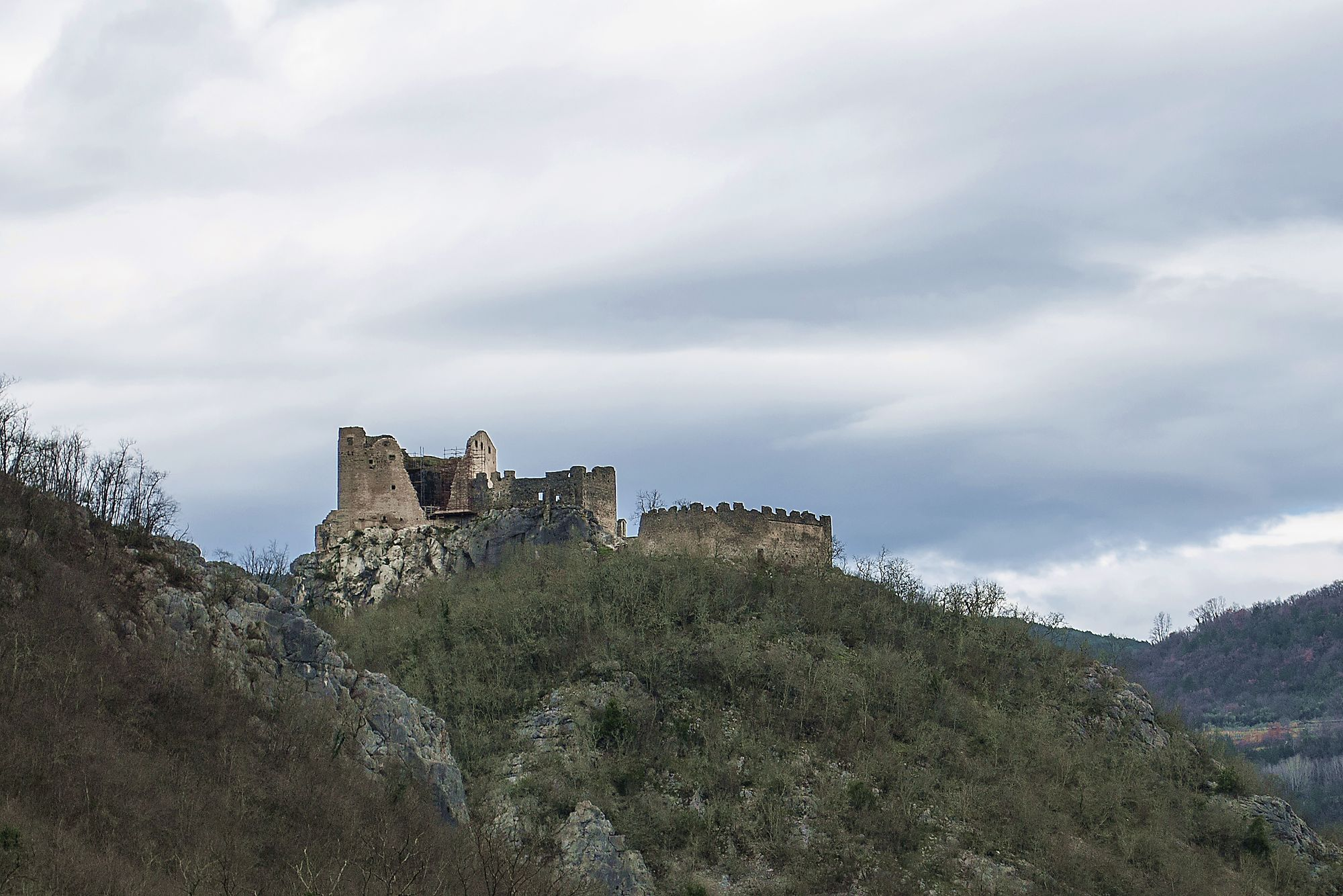 Ruins of Pietrapelosa Castle in Istria, Croatia, on 23 February 2014, by Dinko Gubic